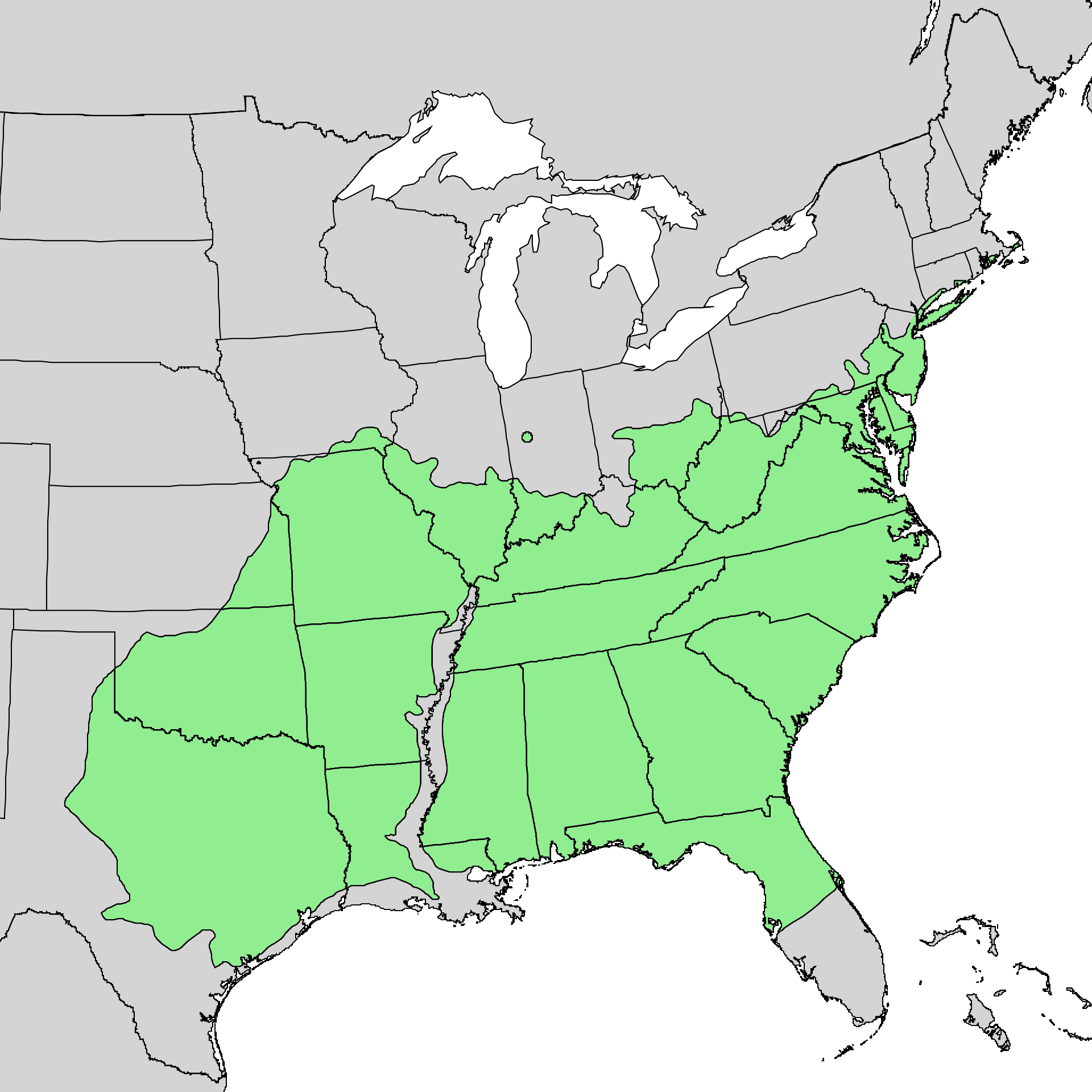 Distribution map for Quercus stellata - post oak